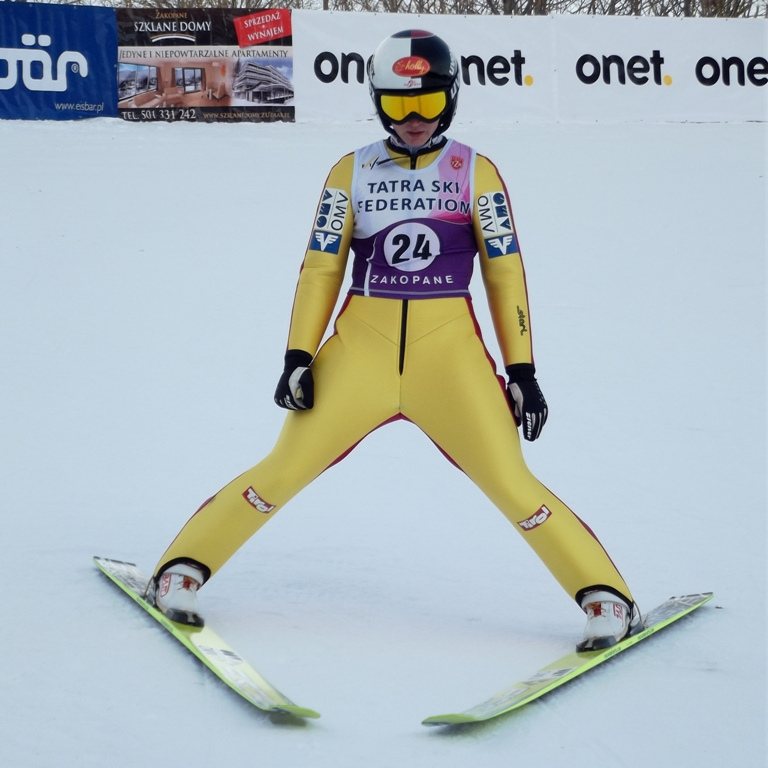 Jacqueline Seifriedsberger